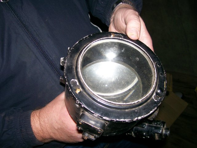 Linden Observatory Complex: World War II Optics